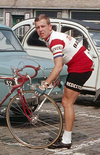 No teams of helpers - get the bike out of the car and pump up the tyres.